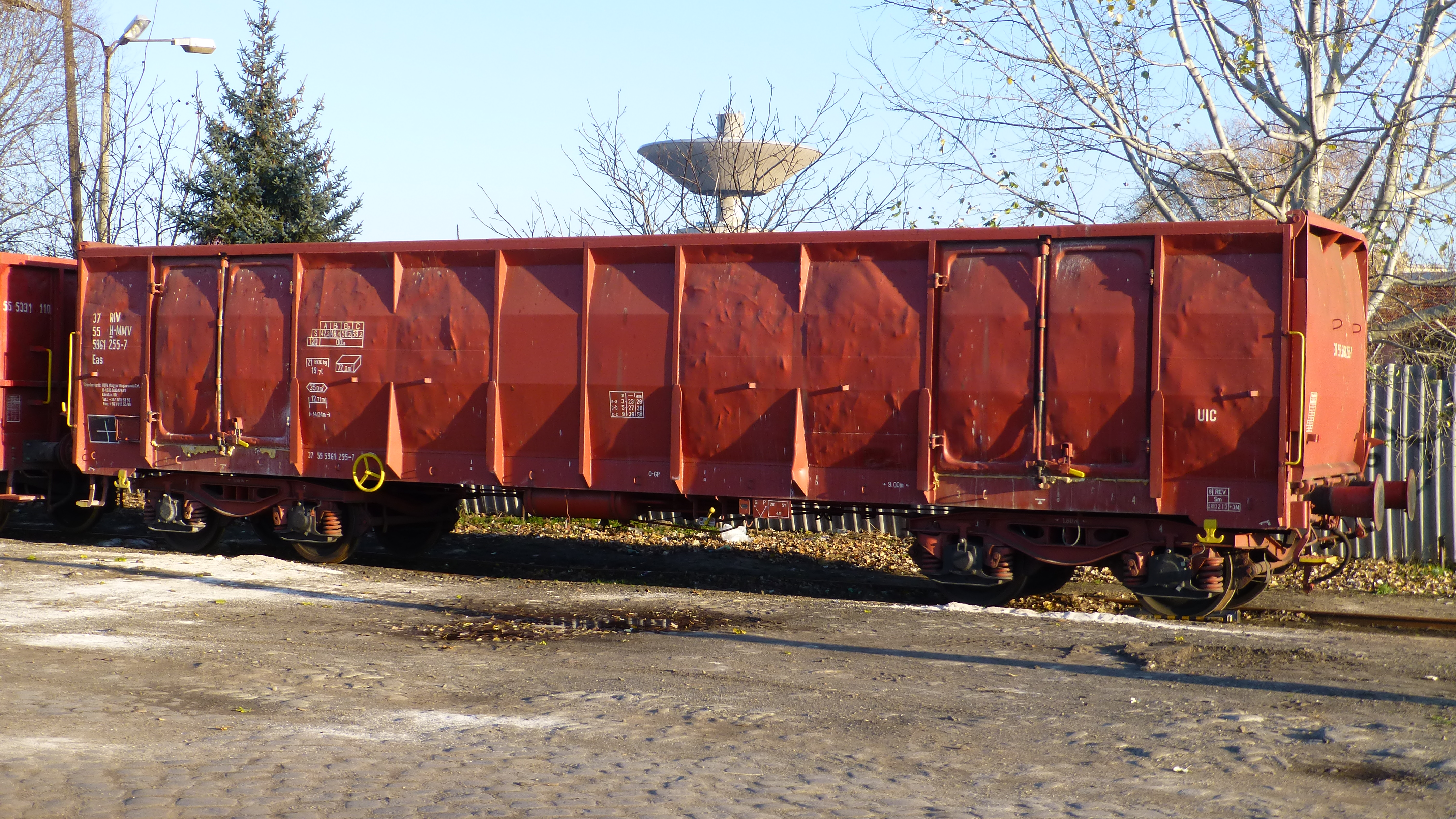 Eas class rail cargo wagon of the Magyar Magánvasút (~Hungarian Private Railway) in Szeged-Rókus, Hungary. Key for Eas letter group: E = Open top railcar with high sidewalls a = with four axes s = In circulation according to the European Technical Specification for Interoperability, appendix B, standard s (max speed 100 km/h)